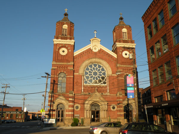 Picture of St. Stanislaus Kostka Roman Catholic Church, located at 21st and Smallman Streets in the Strip District neighborhood of Pittsburgh, Pennsylvania, on November 1, 2009. The church was built in 1891, and is listed on the National Register of Historic Places. Architect: Frederick C. Sauer (1860–1942). Architectural style: Romanesque.